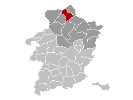 Map, municipality belgium Neerpelt.